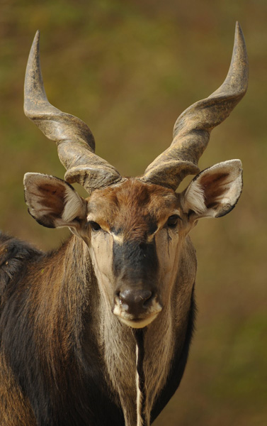 Giant Eland, with detail of the horns